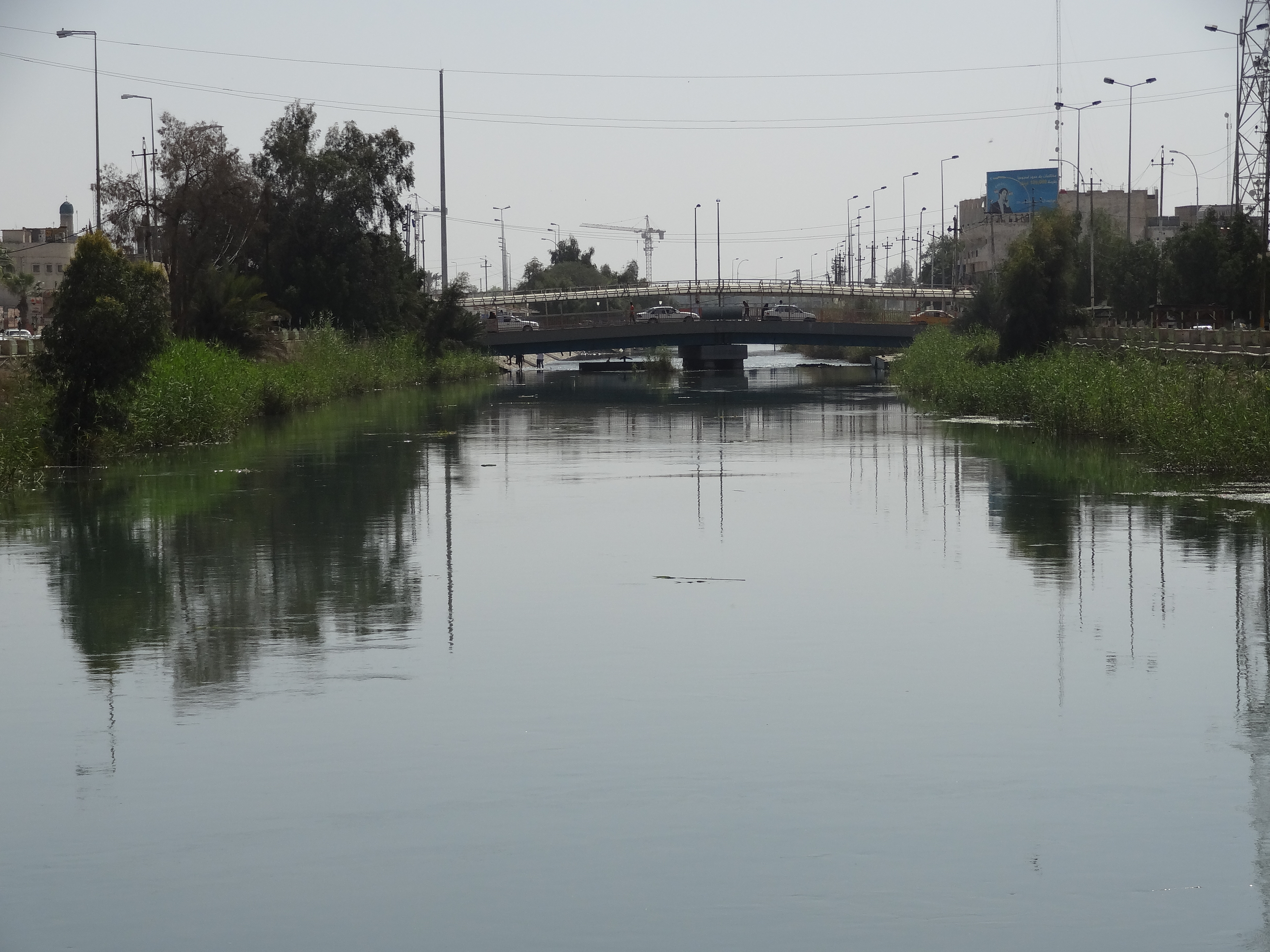 Hello I Sajjad al-Khafaji, from Iraq live in the city of Diwaniyah, the pictures of my city where I live and where the image of the river that passes through the city of Diwaniyah, the people of Diwaniya he calls "the Shatt al-Diwaniya" Template:Wiki Loves Earth Iraq